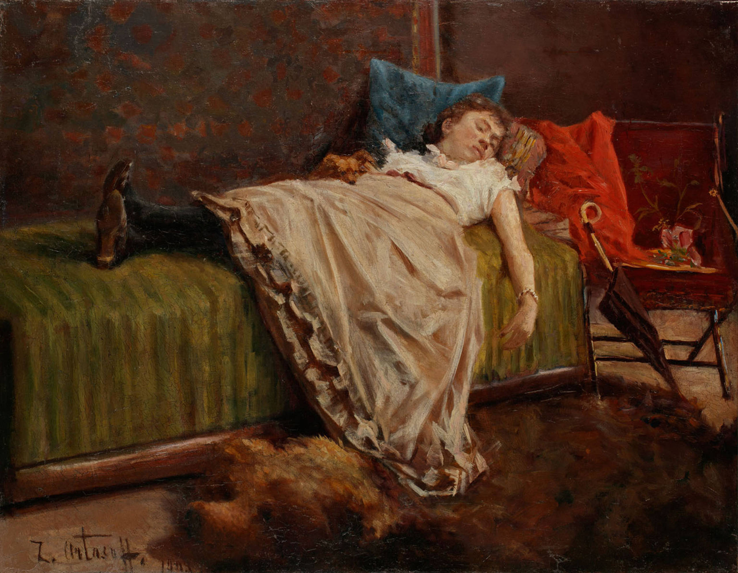 "Sleeping girl", a painting by the Armenian-Georgian artist Lazar Artasoff (Artazyan; 1857–1924). Oil on canvas; 56 x 72 cm.